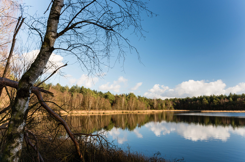 Ruiterskuilen in Duinengordel